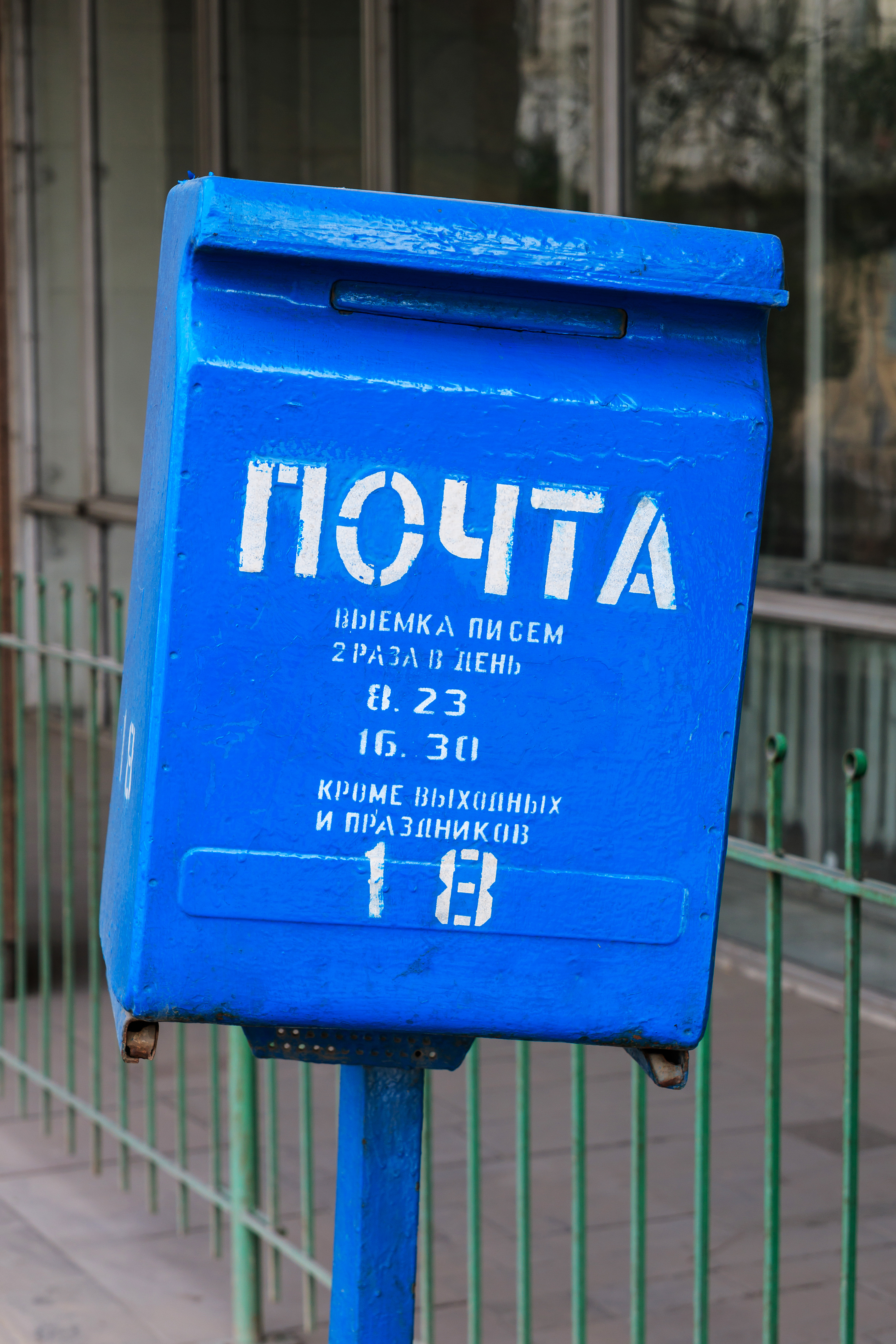 Kyrgyz post box in Bishkek, Kyrgyzstan